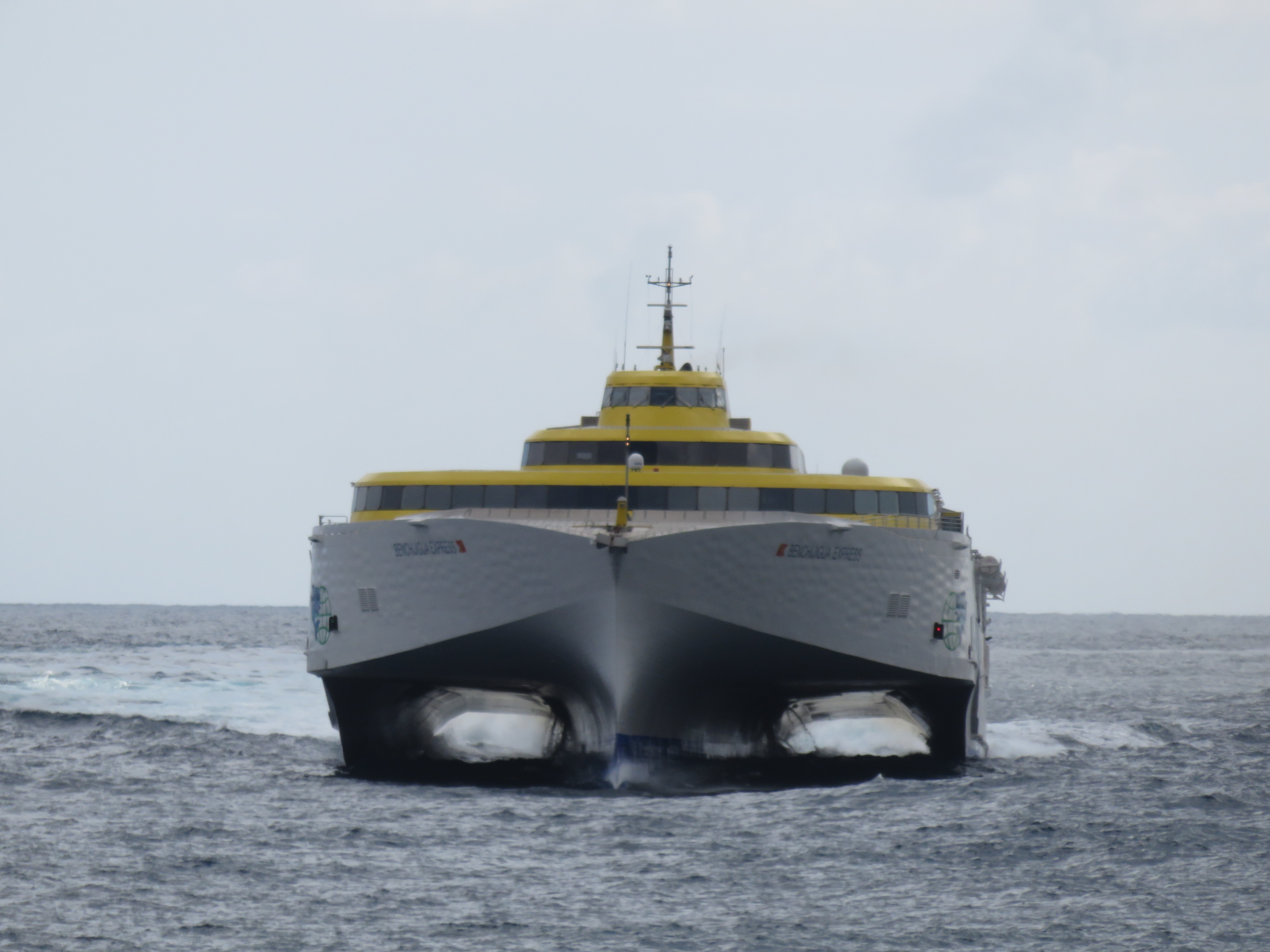 Benchijigua Express, Fred. Olsen Express, entry into the port of Santa Cruz, La Palma.